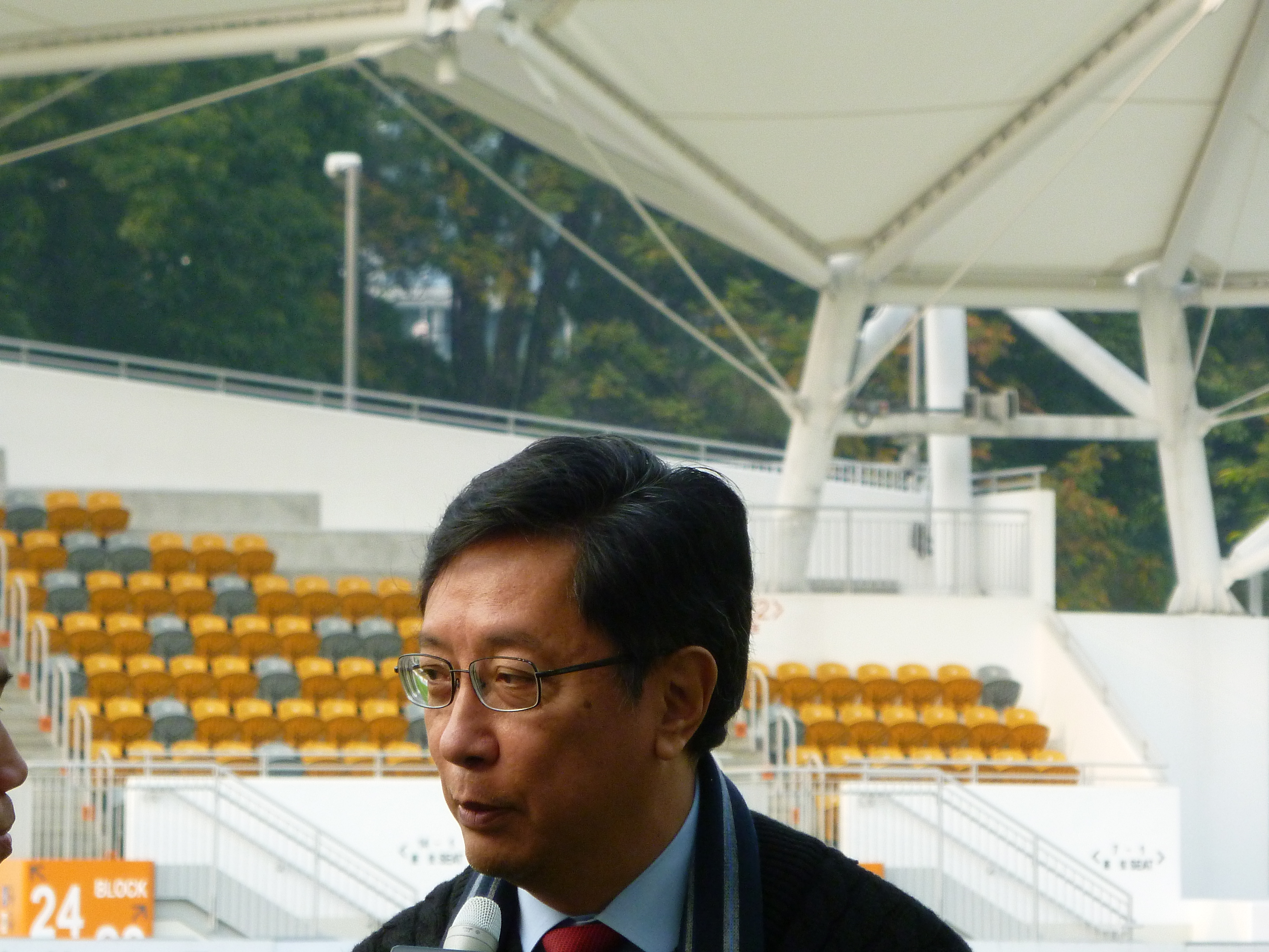 Ken Ng (8 Jan 2012 Hong Kong First Division League, Rangers vs Kitchee, Mong Kok Stadium)